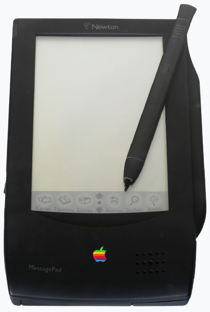 Apple MessagePad 100. On display at the Musée Bolo, EPFL, Lausanne. The making of this document was supported by Wikimedia CH. (Submit your project!) For all the files concerned, please see the category Supported by Wikimedia CH.